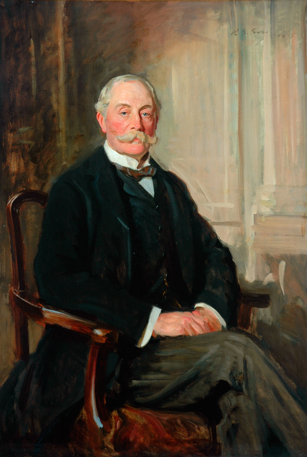 A 1912 portrait of Henry Meysey Meysey-Thompson, 1st Baron Knaresborough (30 August 1845 – 3 March 1929), a Liberal (and later Liberal Unionist) politician who sat in the House of Commons several times 1880-1905, until he was raised to the peerage as Baron Knaresborough.